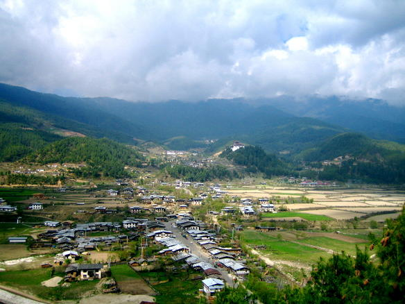 Taken from World66 - Attributed to 'Stuart' Link to original page: [1] says “All the material (articles and images, otherwise specified) are published under the Creative Commons Attribution-ShareAlike 1.0 Licence.“ says “All the material (articles and images, otherwise specified) are published under the Creative Commons Attribution-ShareAlike 1.0 Licence.“.